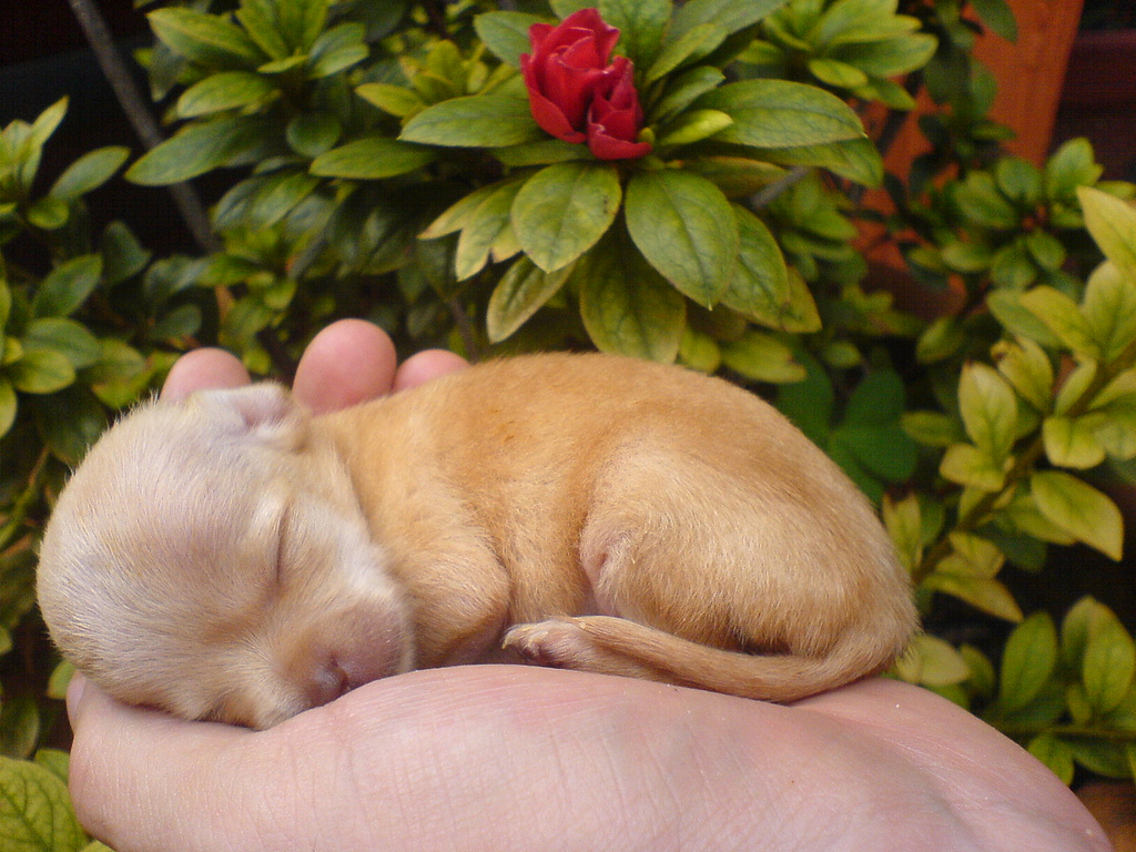 Chihuahua puppy